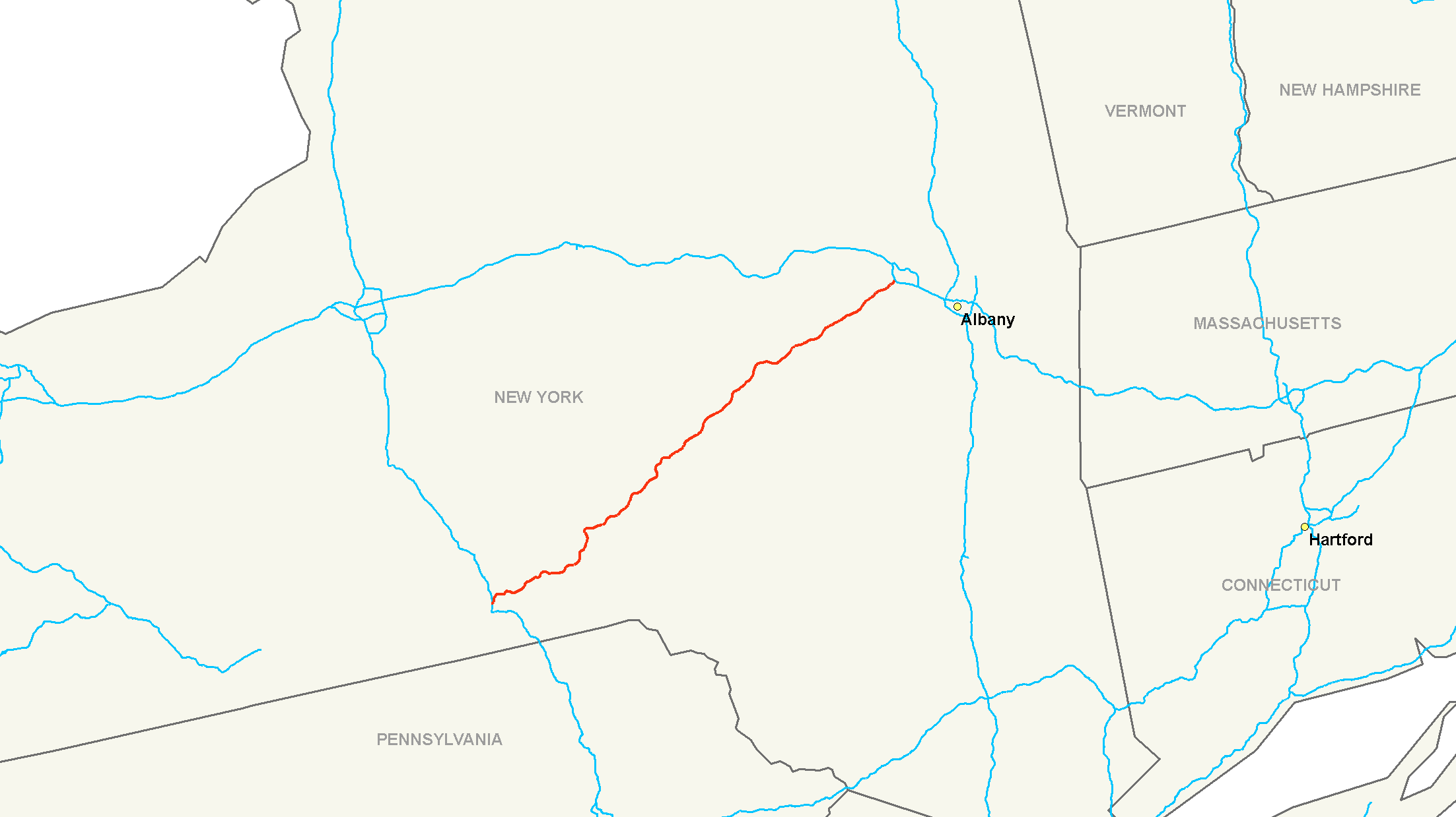 Map of Interstate 88 (East)